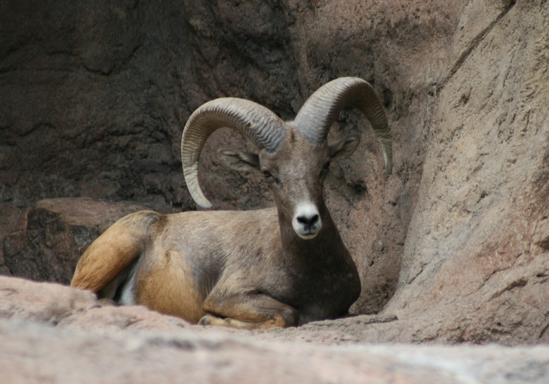 Ovis canadensis nelsoni at Arizona Sonora Desert Museum